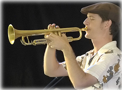 Jazz trumpeter Darren Johnston